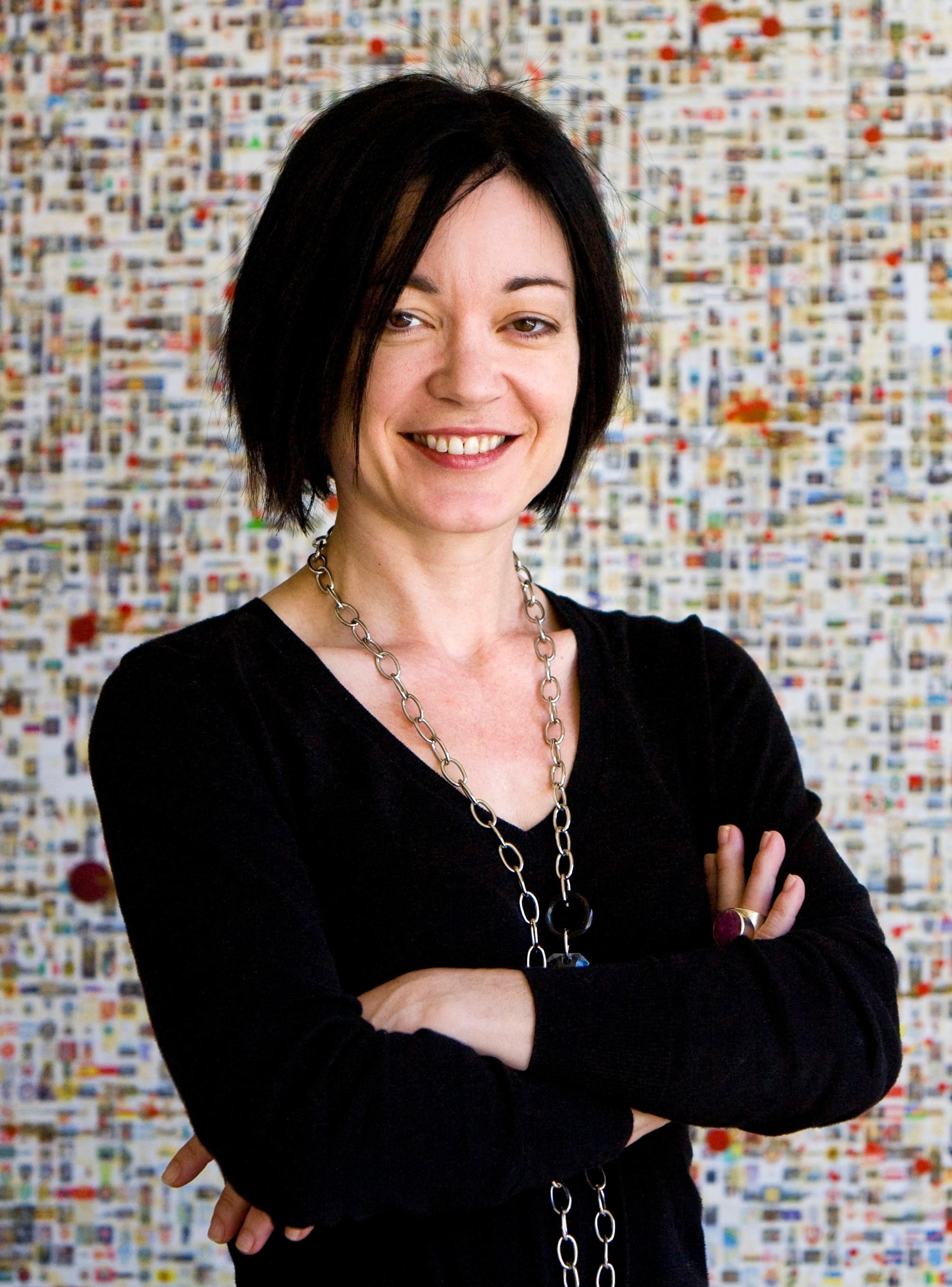 staff portrait of Sue Gardner